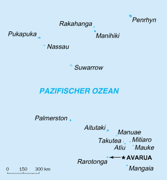 Geographical map of the cook islands